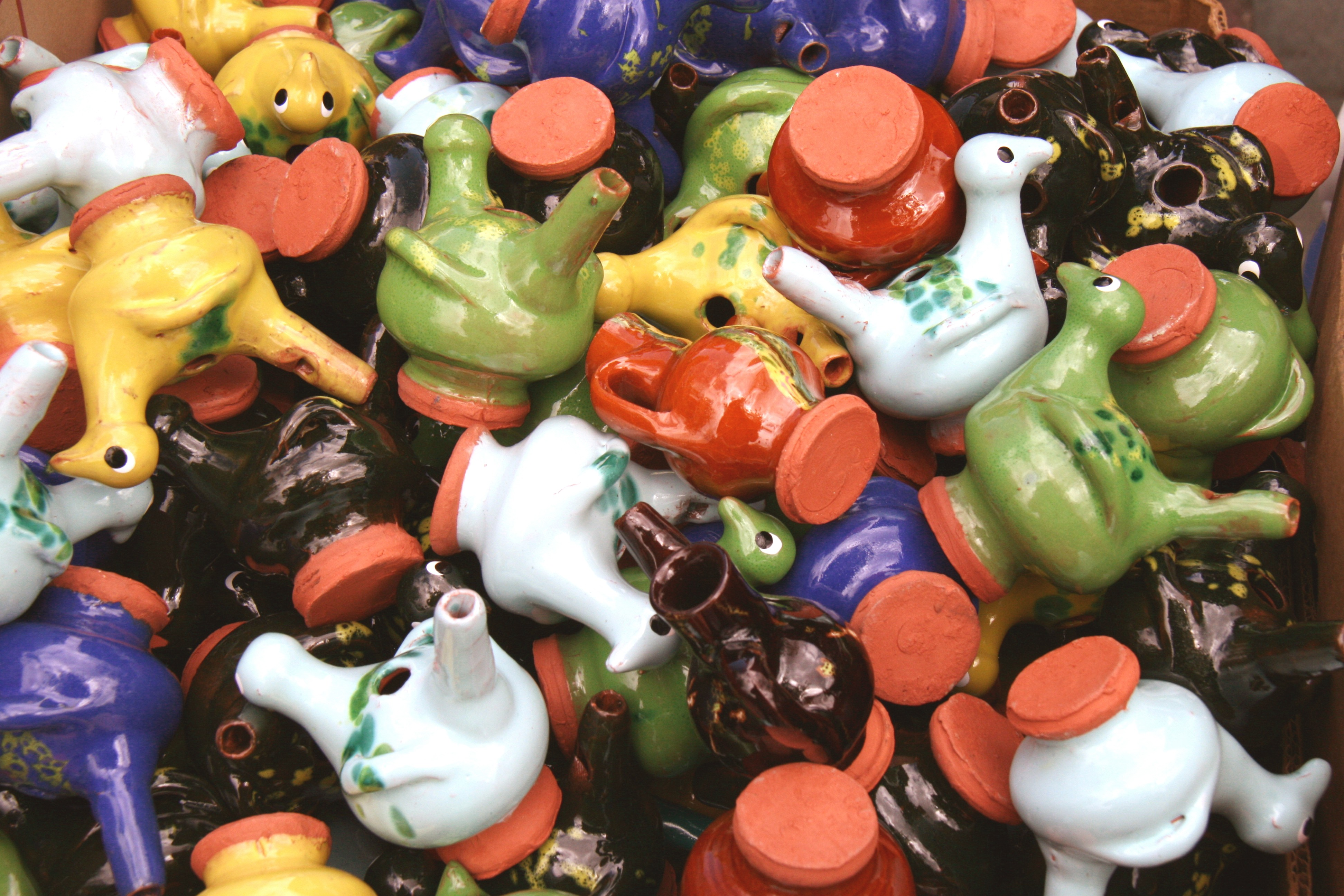 "Pitos del Santo". These are whistles made of clay or crystal to celebrate the holidays of San Isidro Labrador.